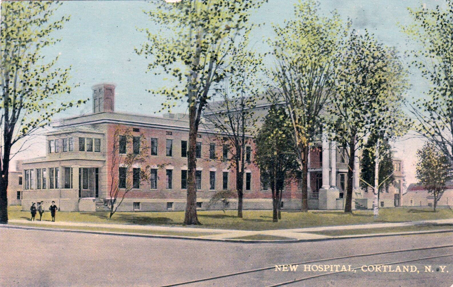 postcard of Cortland Hospital, Cortland, New York, circa 1913 (postmarked)